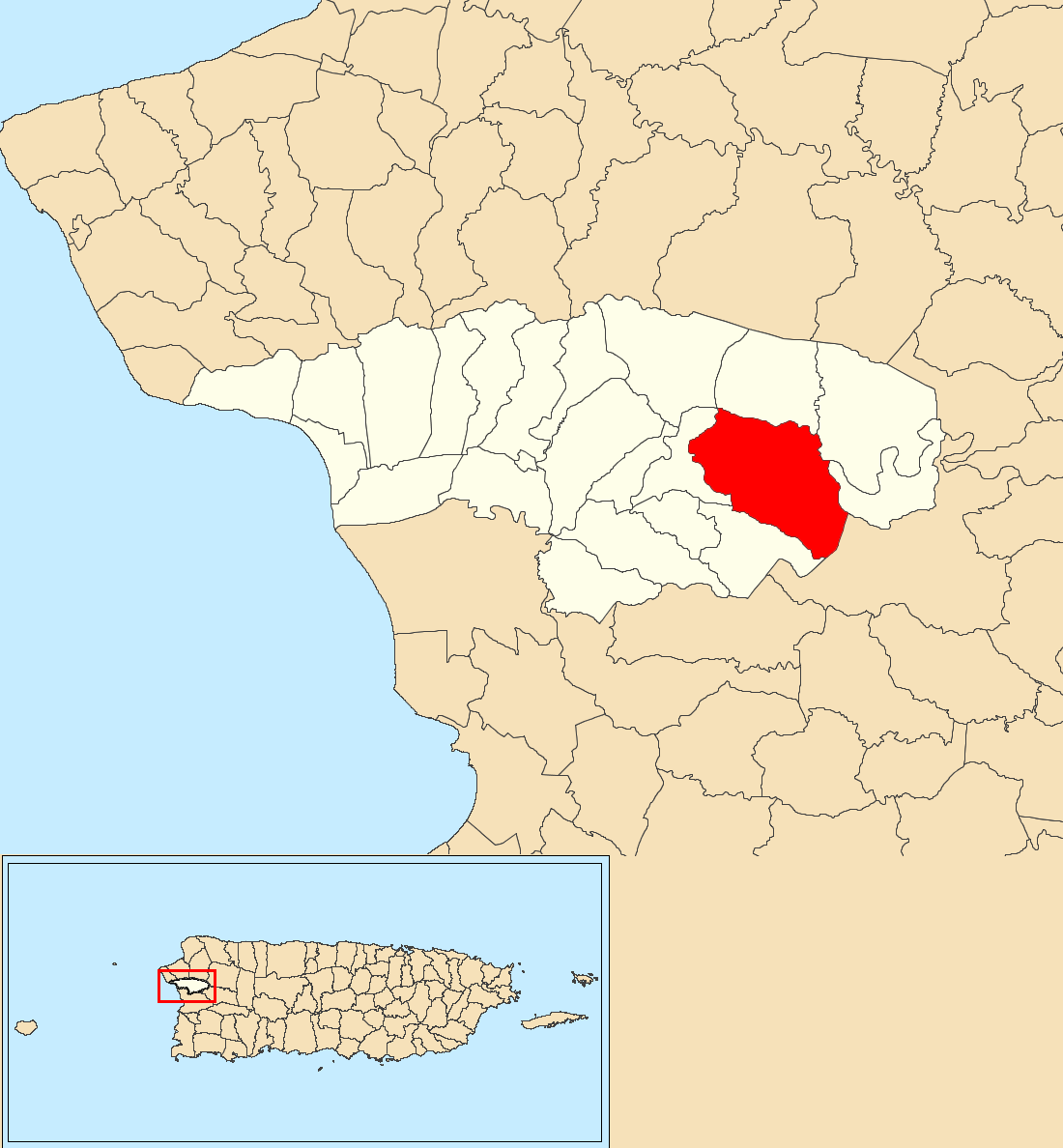 Miraflores, Añasco, Puerto Rico locator map